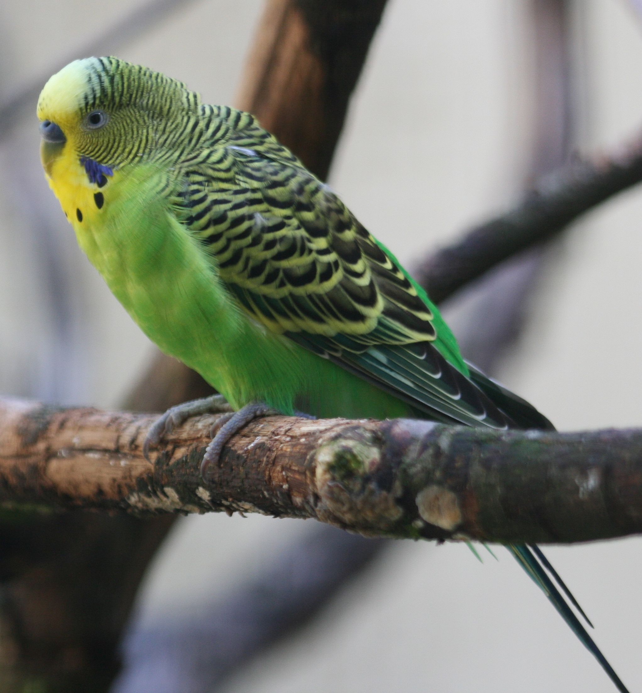 A wild-type male Budgerigar at Cologne Zoo, Germany.